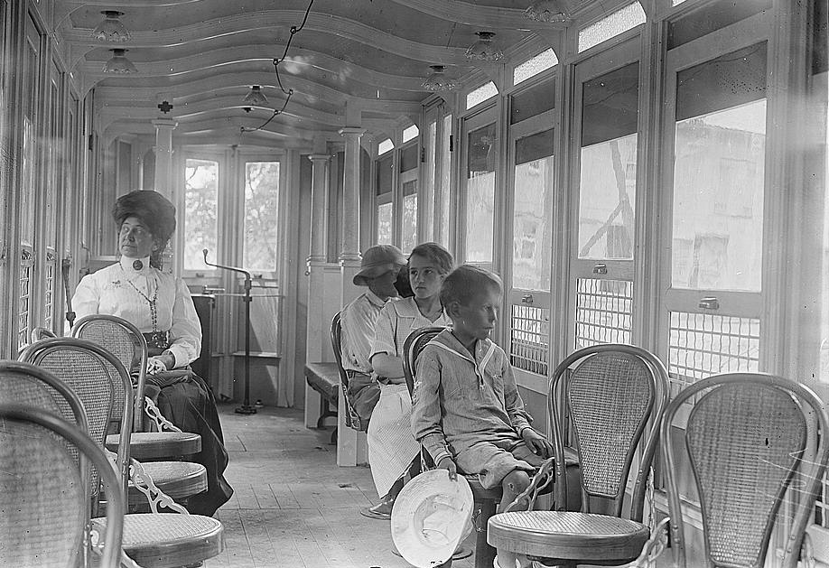 Monorail car City Island (New York) R.R. (internal view)